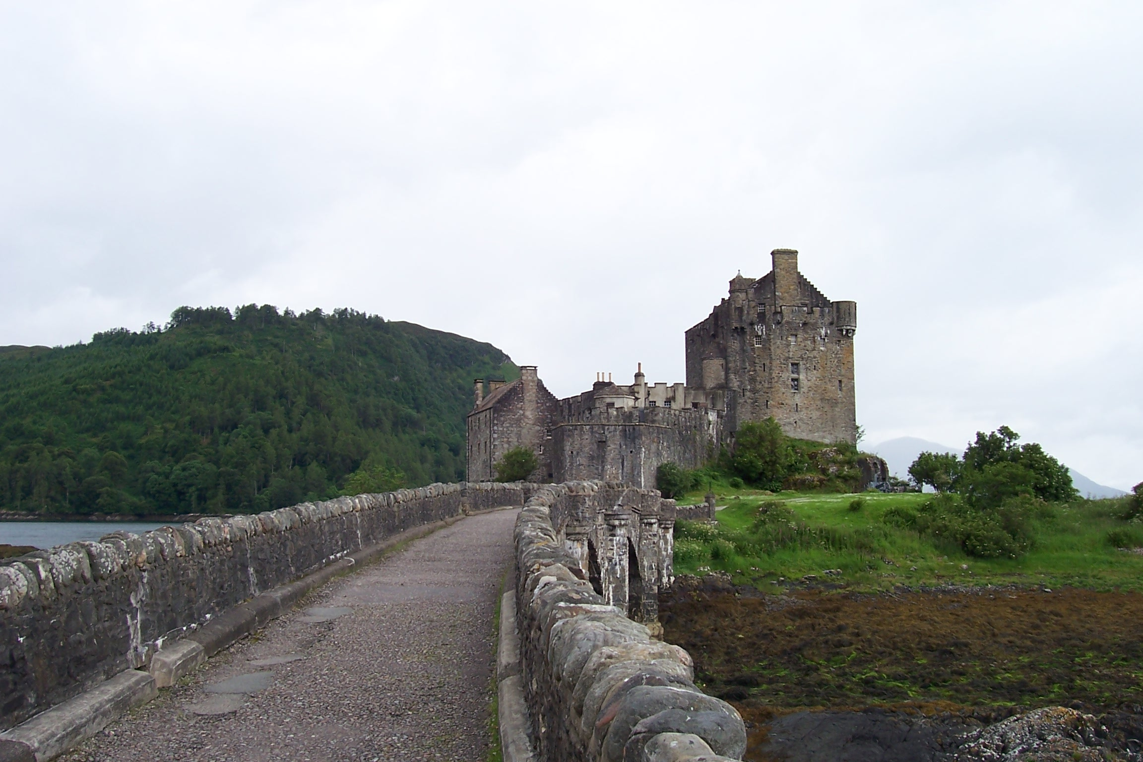 A view of Eilean Donan castle, in the Scottish Highlands, looking down the bridge leading to its main entrance.